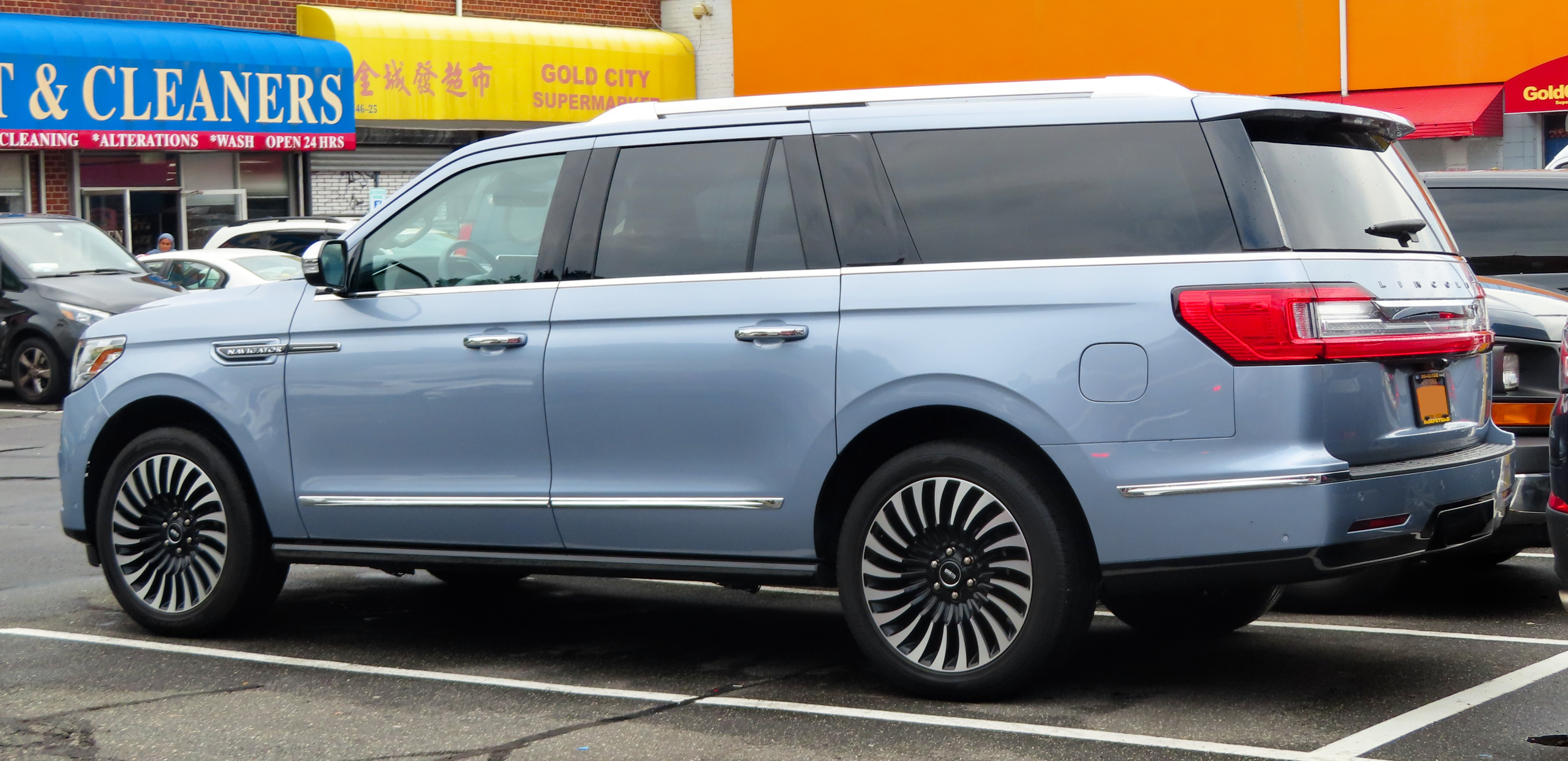 A 2019 Lincoln Navigator L photographed in Flushing, Queens, New York, USA